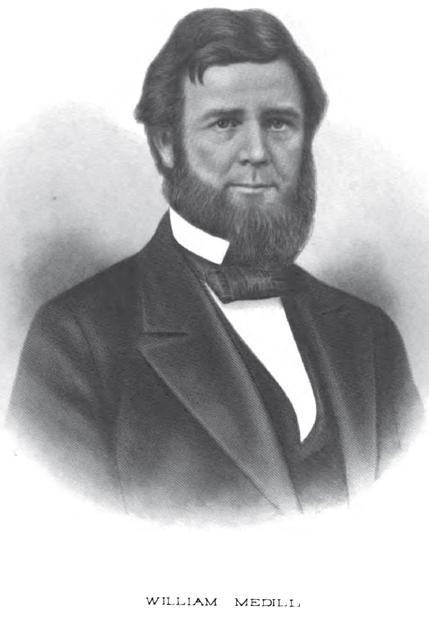 an Ohio Governor named William Medill